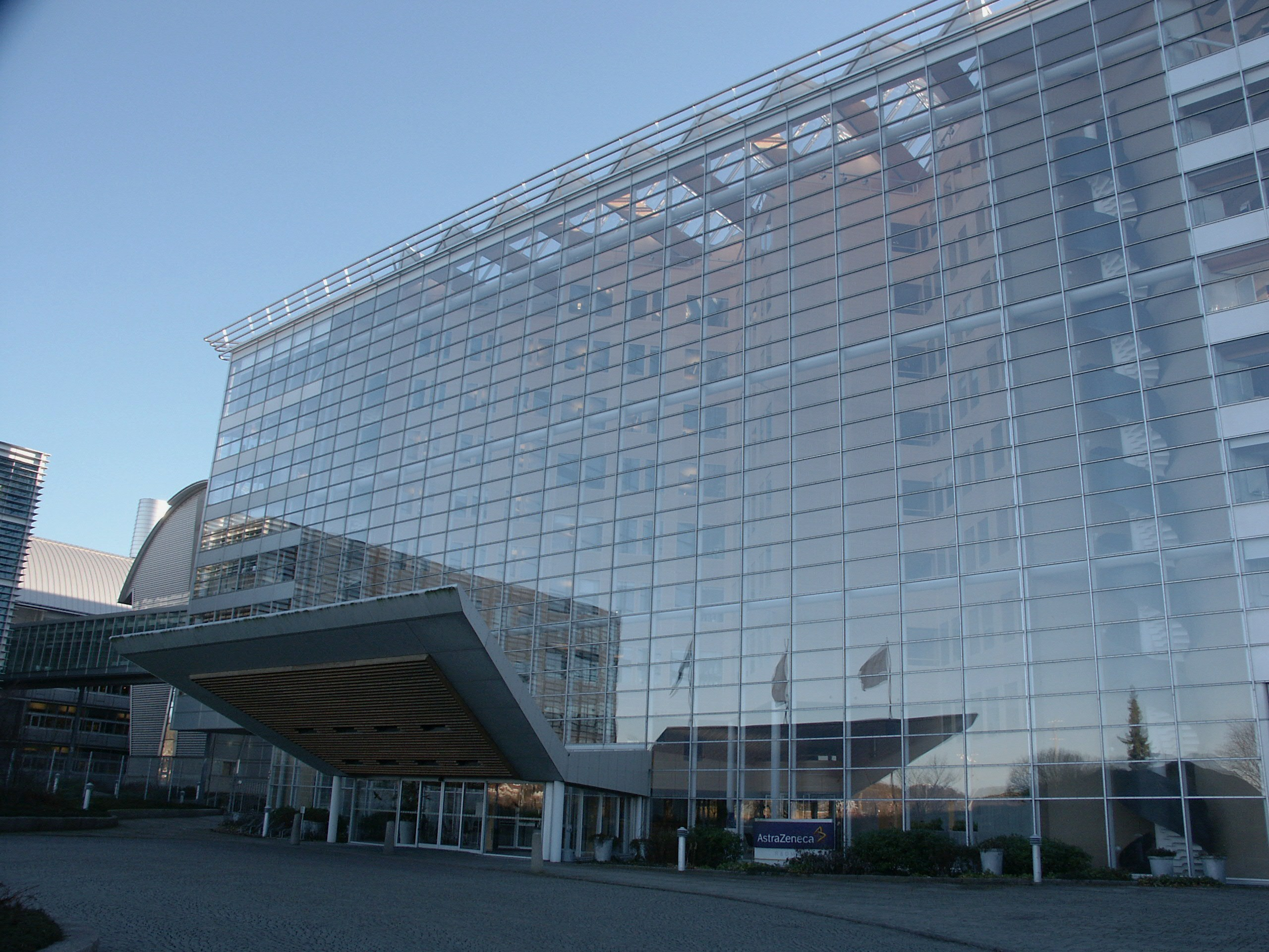 AstraZeneca's R&D Site in Mölndal, Sweden: main gate